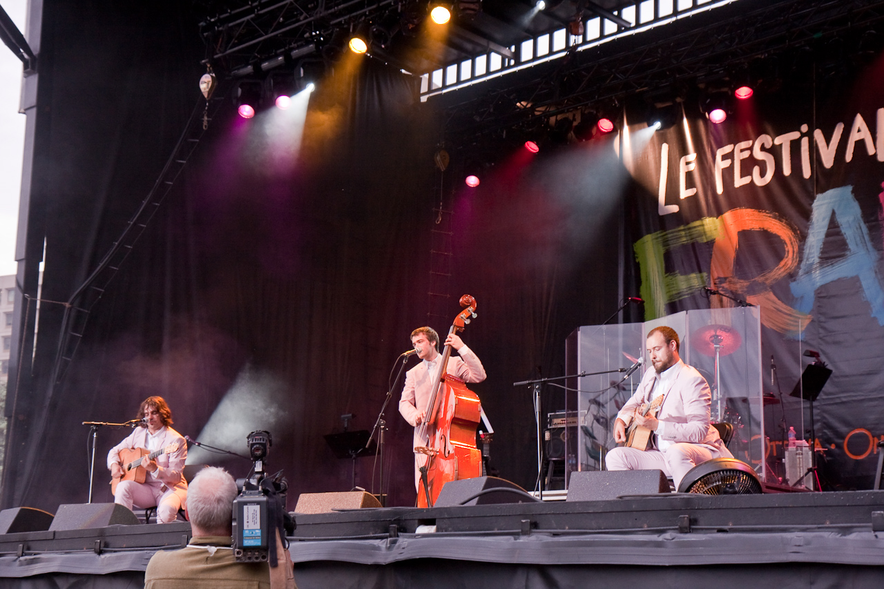 French-Canadian jazz band The Lost Fingers performing at the Festival franco-ontarien on June 11, 2009 in Ottawa, Canada. From left to right, Christian Roberge, Alex Morissette, and Byron Mikaloff.